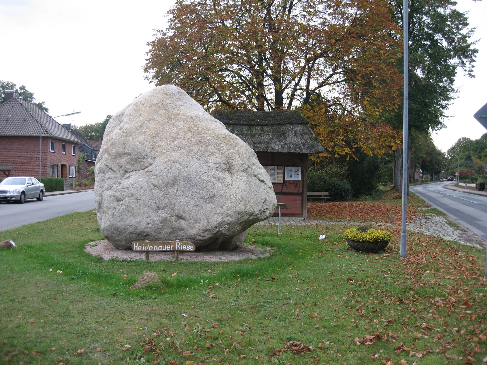 Heidenauer Riese